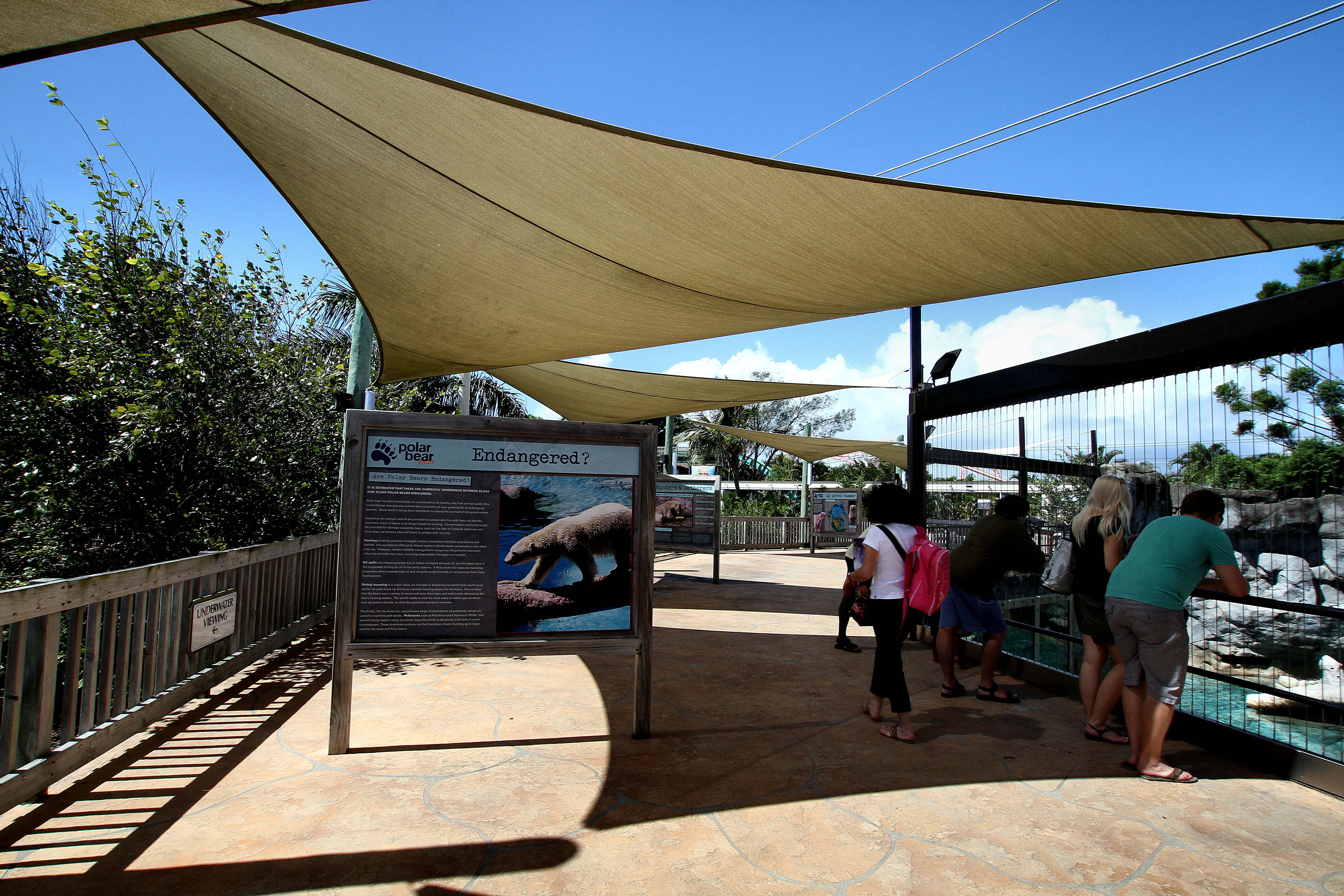 Honeymoon, Gold Coast Australia